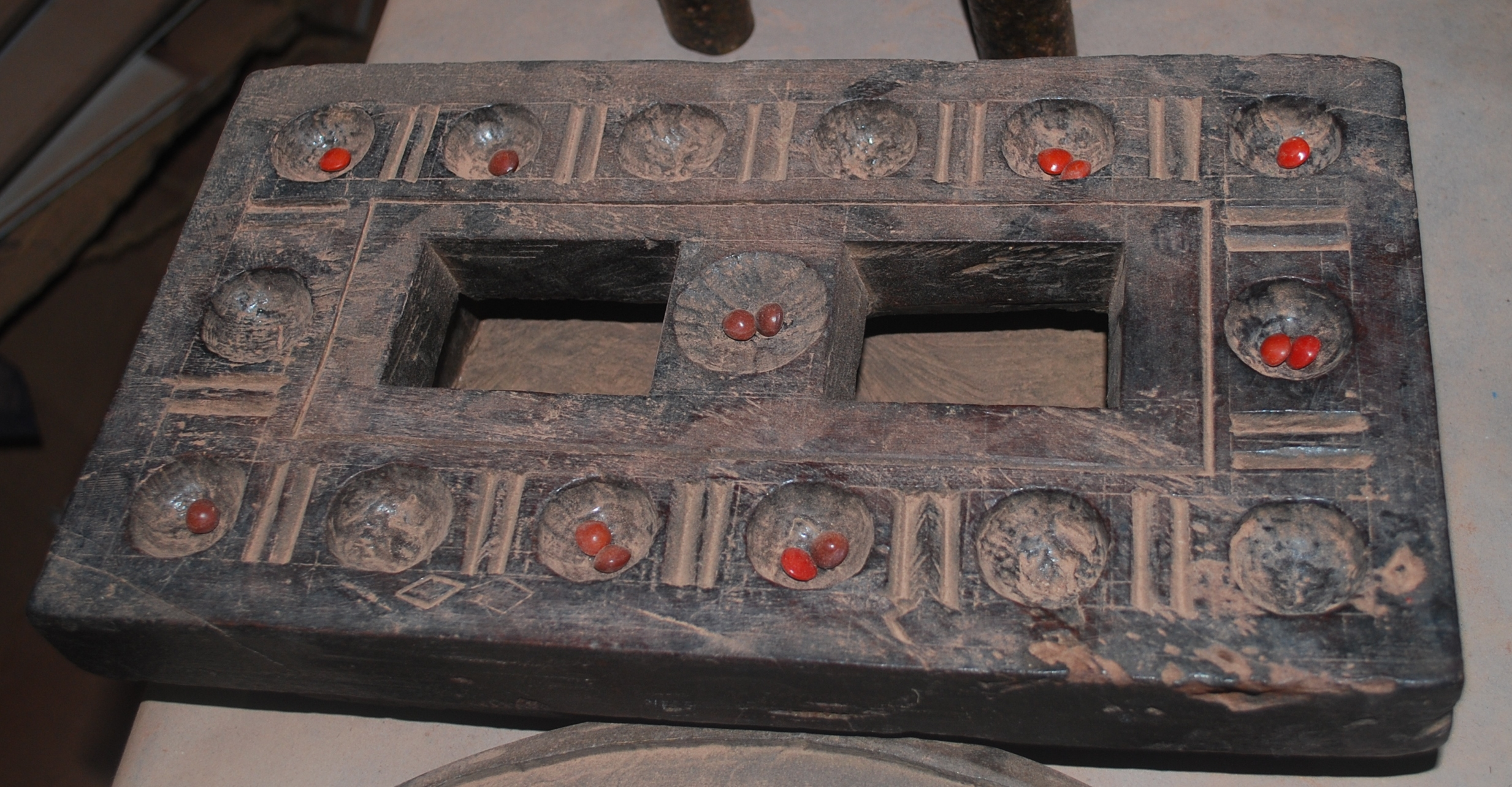 Pallanghuzi, or Pallankuli, is a variant of Mancala played in southern India, especially Tamil Nadu and Andhra Pradesh